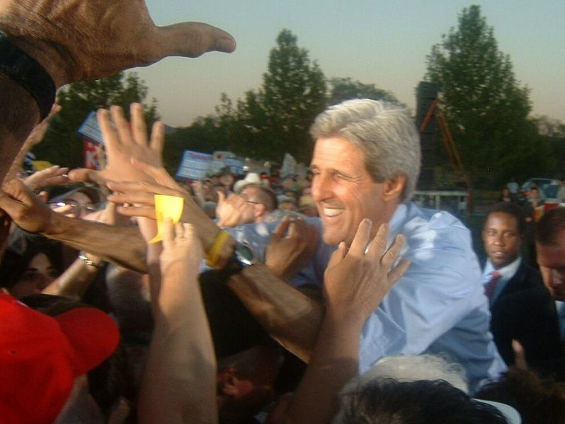 John Kerry on a campaign rally in Albuquerque/ New Mexico (USA) in September 2004.